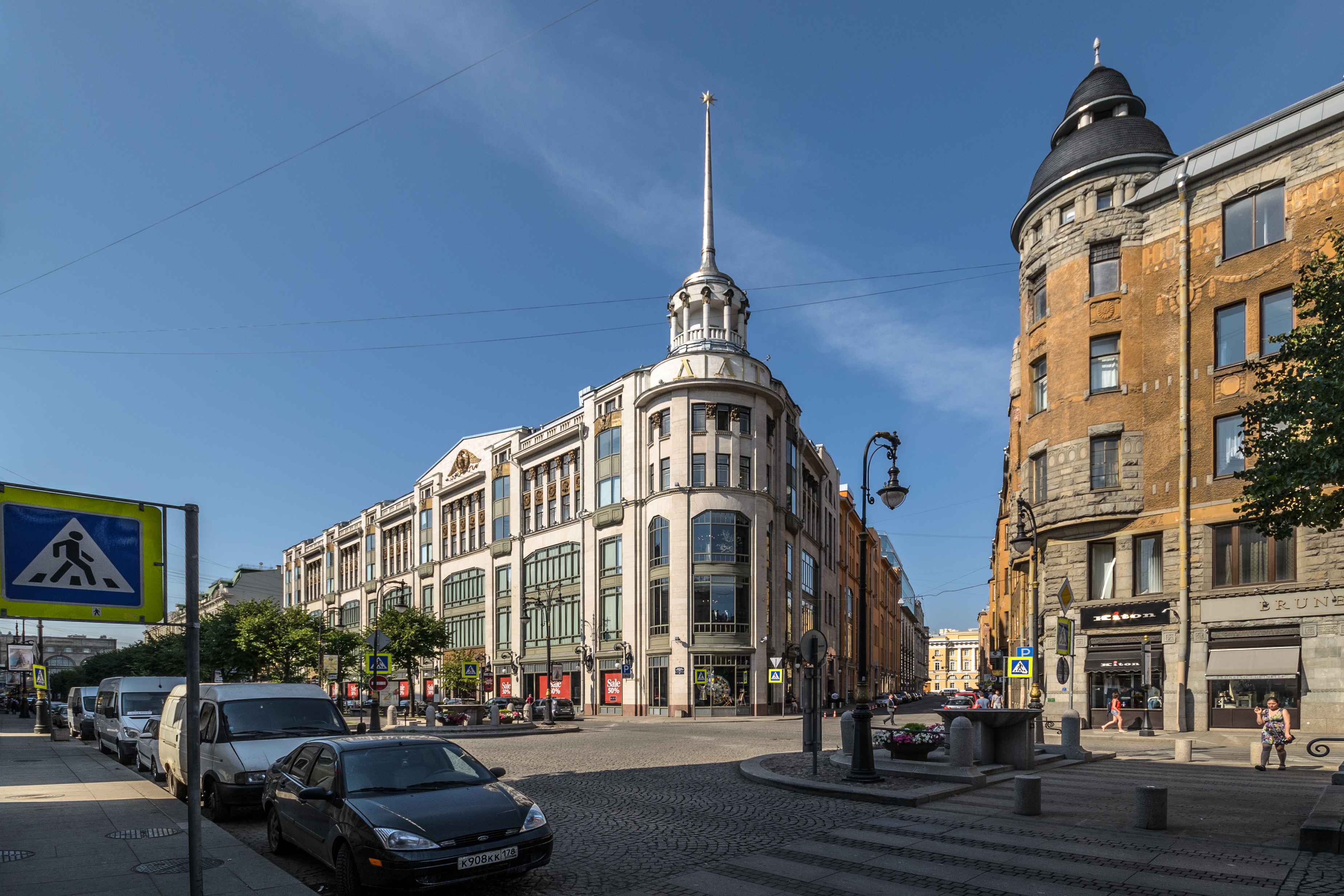 "DLT" Department Store at Bolshaya Konushennaya Street in Saint Petersburg